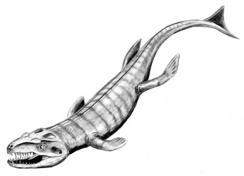 Dakosaurus andiniensis, pencil drawing. A crocodyle of the Metriorhynchidae famillia, living during the Jurassic (-200 millions years to -145 millions years).